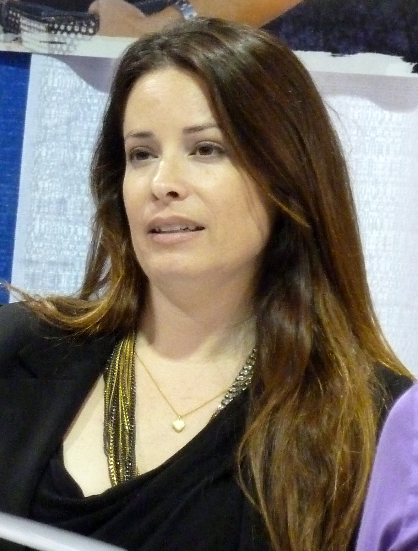 Holly Marie Combs at the 2012 Chicago Wizard World.